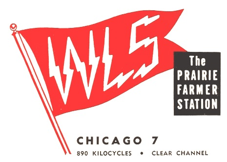 WLS in Chicago, Illinois was a major radio station which operated at this time under the slogan "The Prairie Farmer Station".